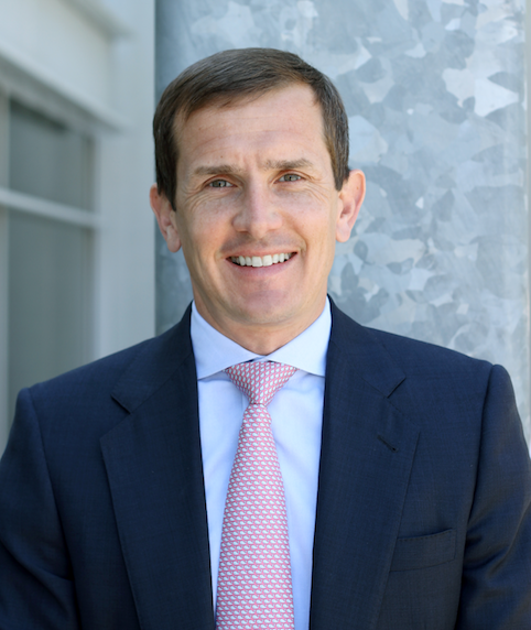 Headshot of Chip Smith, Executive Vice President of Public Affairs at 21st Century Fox